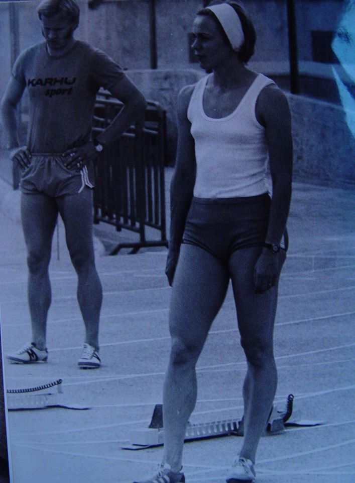 Mona-Lisa Pursiainen during European Athletics Championships held in Rome in 1974.